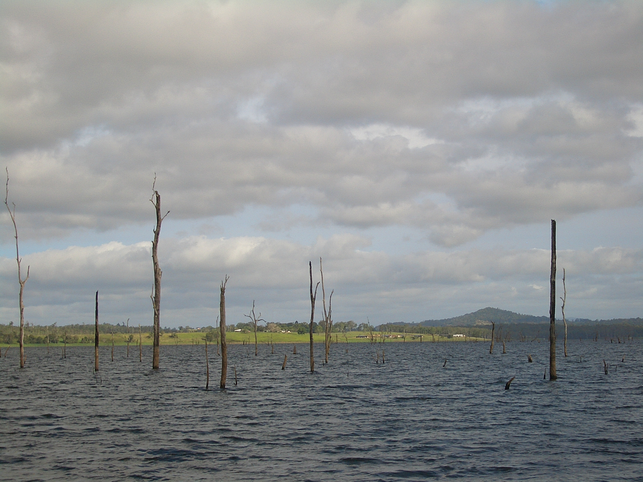 Tops of trees in the forest flooded ca. 1958 showing up above the surface of Lake Tinaroo, Queensland